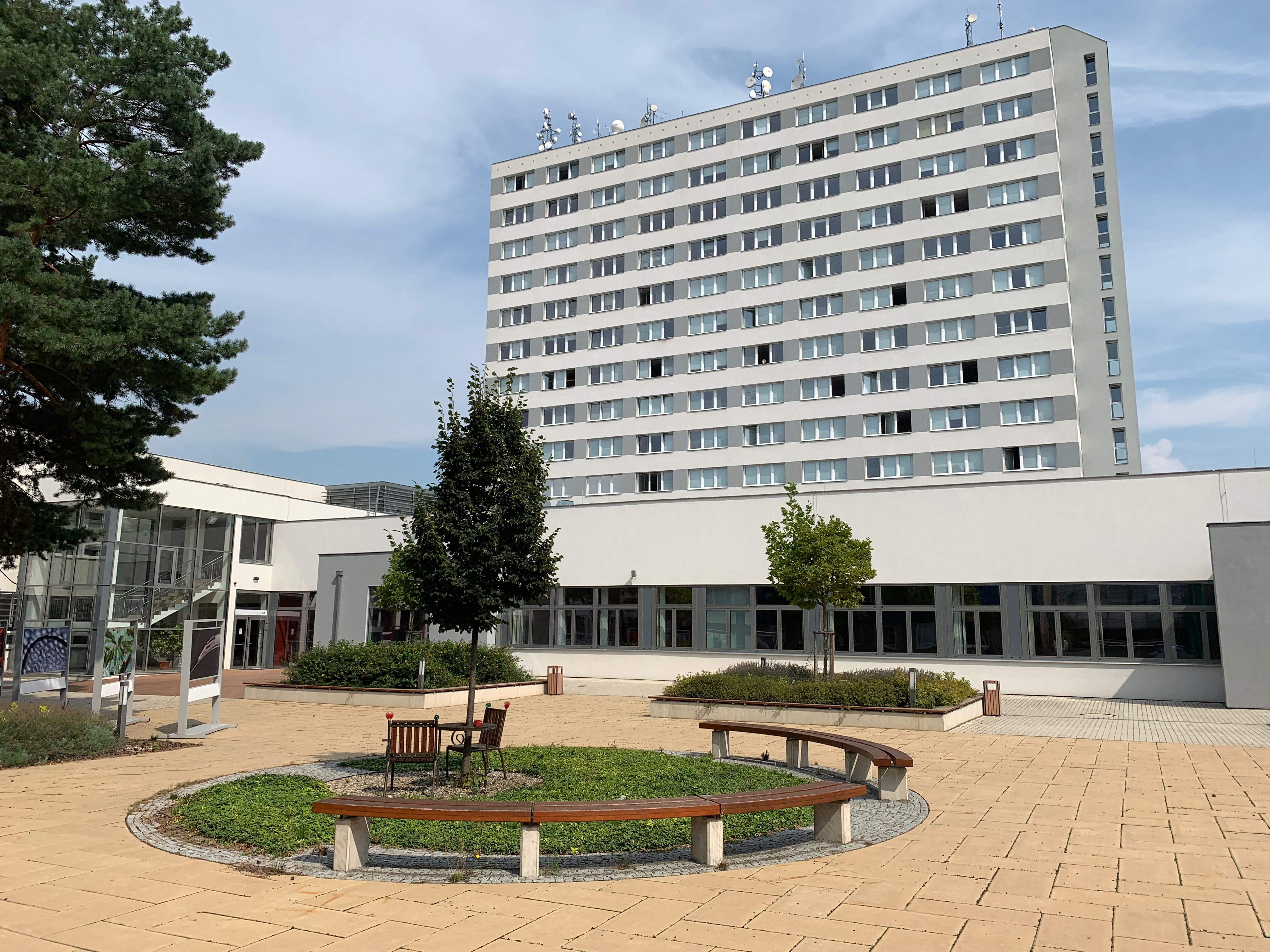 The Educational Compound (Campus) Polabiny, atrium. A building of the Faculty of Economic and Administration and Faculty of Arts.